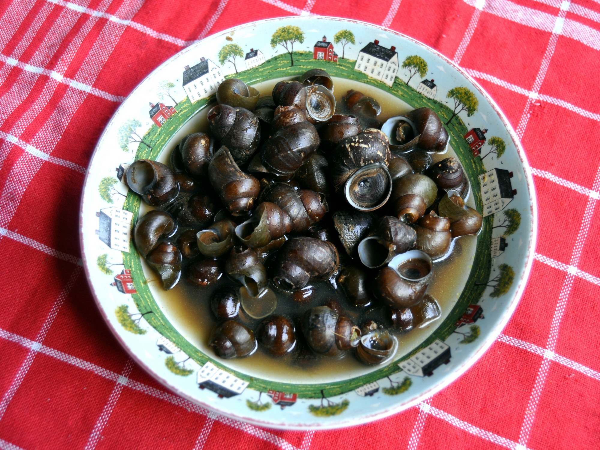 A dish of boiled freshwater snail Filopaludina javanica, formerly known as Bellamya javanica (von dem Busch, 1844), from Bogor, West Java, Indonesia.